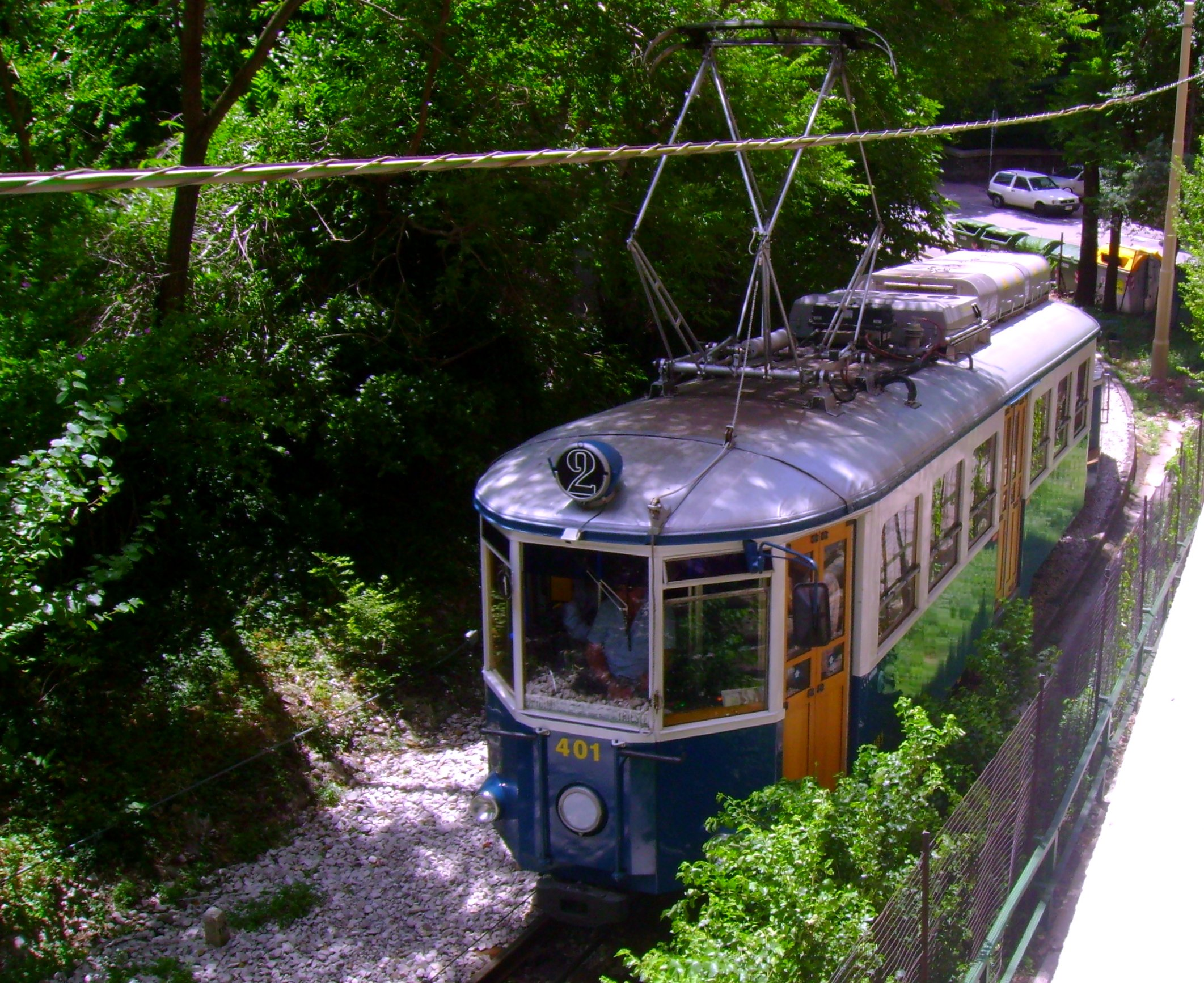 The Opicina Tramway is an unusual hybrid tramway and funicular railway in the city of Trieste, Italy. It links Piazza Oberdan, on the northern edge of the city centre, with the village of Villa Opicina in the hills above. This line was opened in 1902.